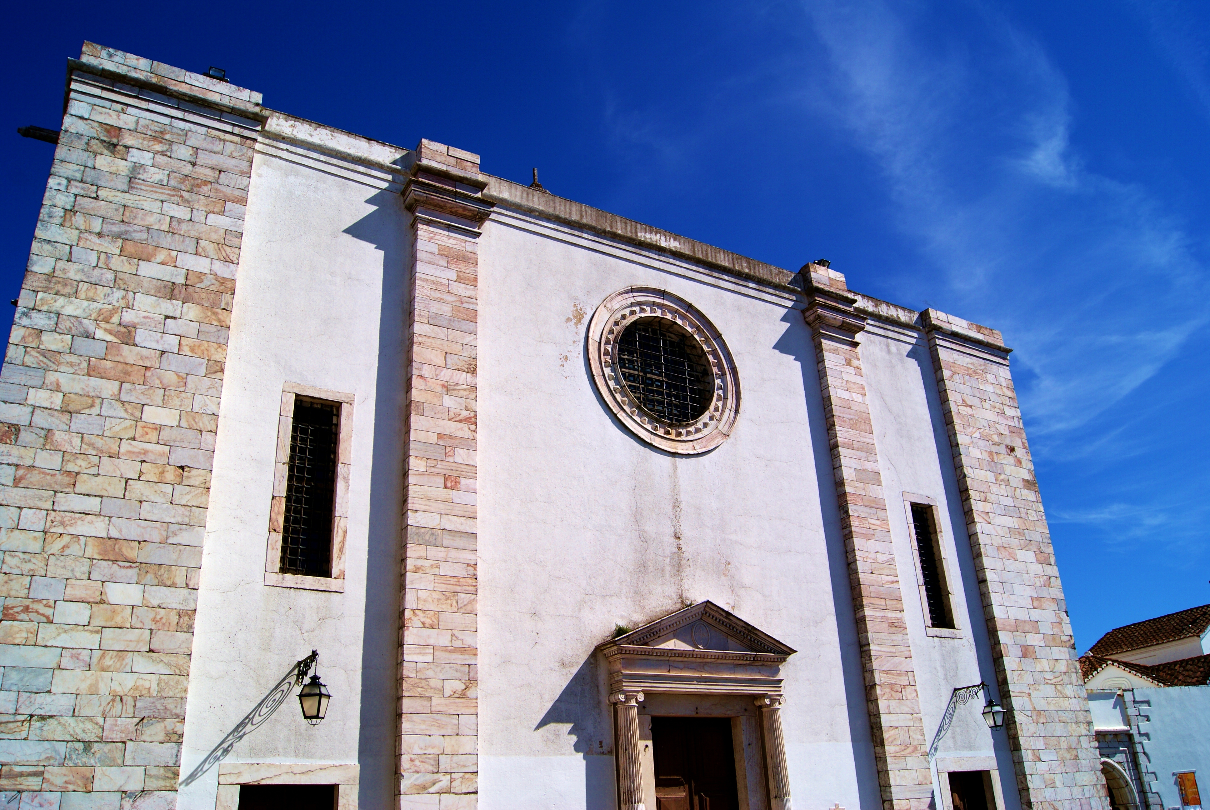 This file was uploaded for Wiki Loves Monuments in Portugal with the unique identifier 74276.